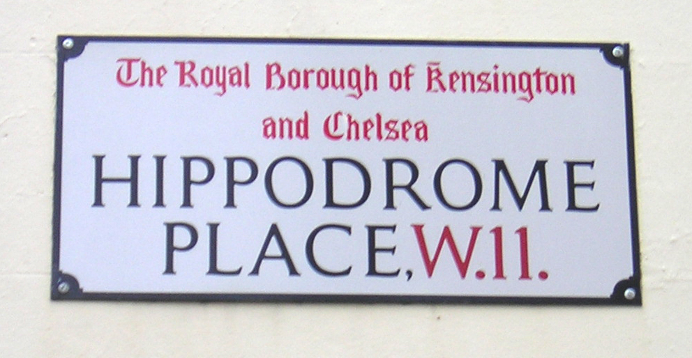 Hippodrome Place, Holland park